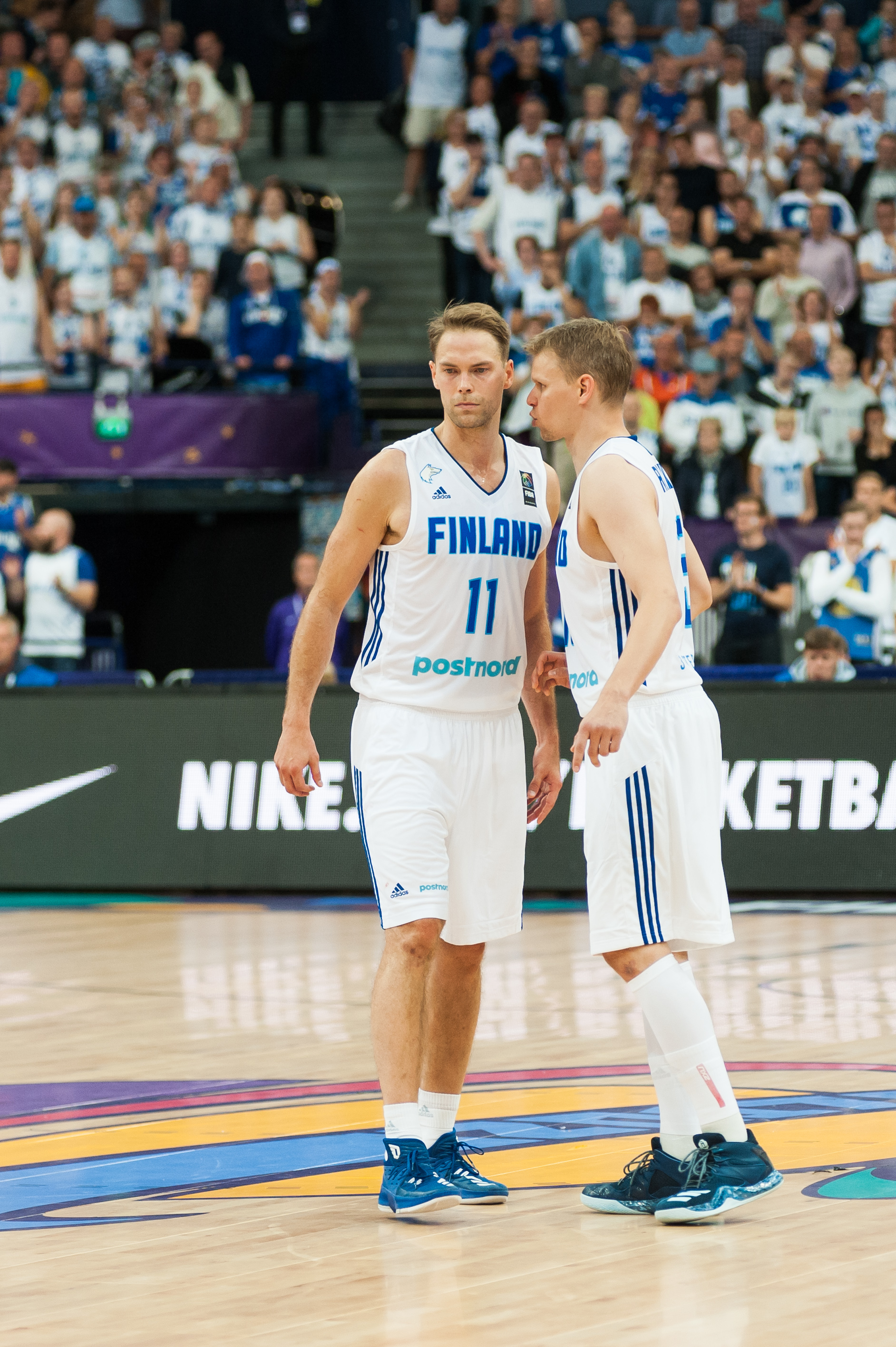 EuroBasket 2017 Group A game between Finland and Poland at Hartwall Arena in Helsinki, Finland.